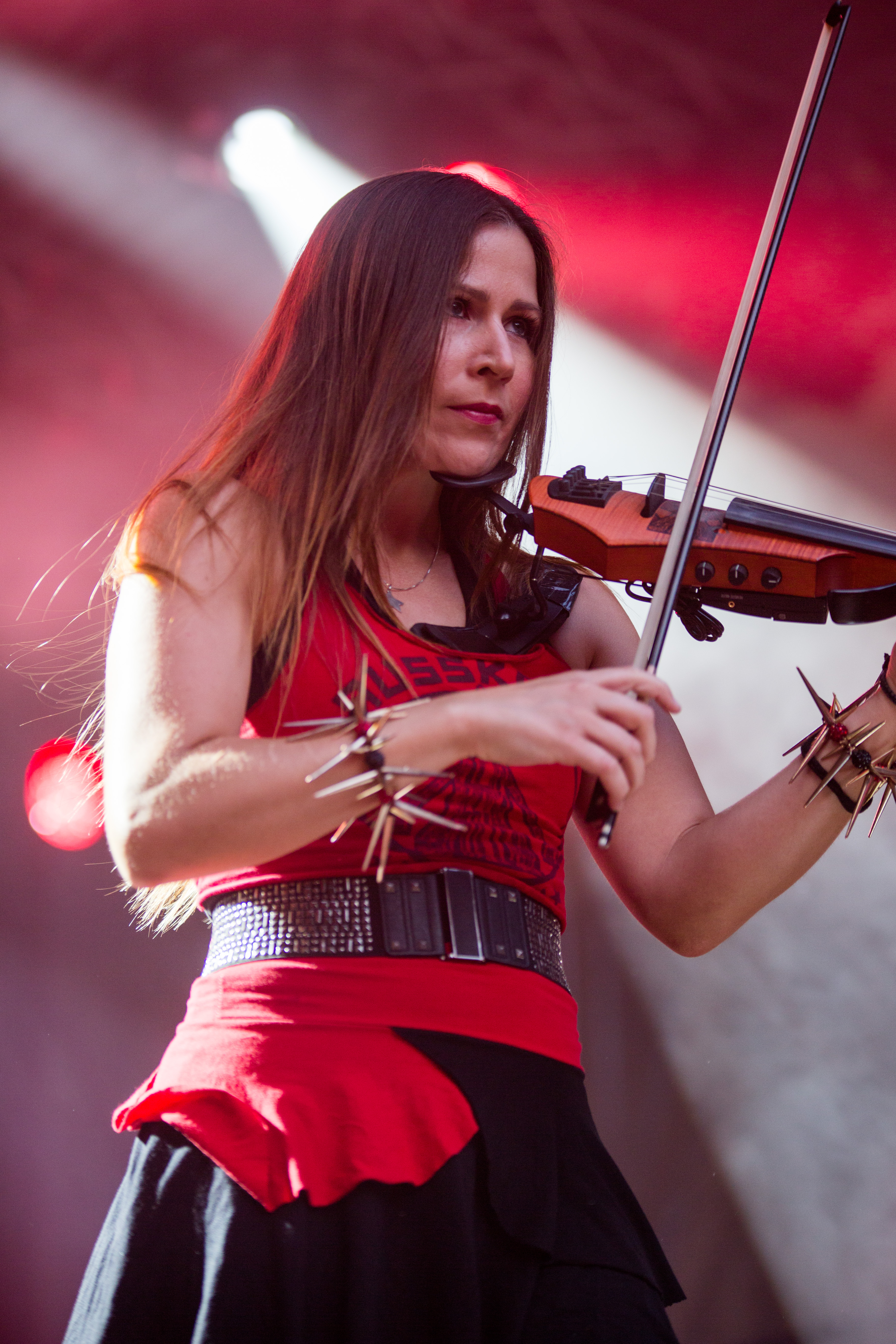 Festivalsommer This photo was created with the support of donations to Wikimedia Deutschland in the context of the CPB project "Festival Summer".